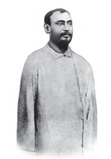 Swami Yogananda, a direct disciple of 19th century mystic Ramakrishna Paramahamsa.